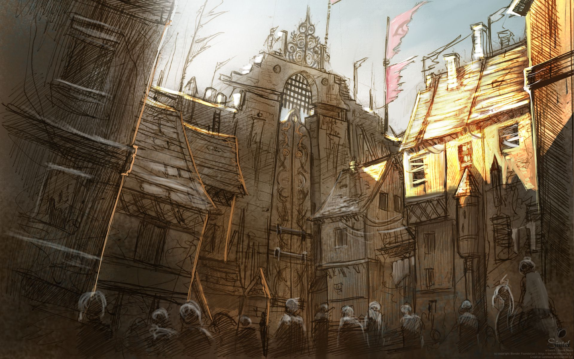 artwork for the Durian-Project of the Blender Foundation